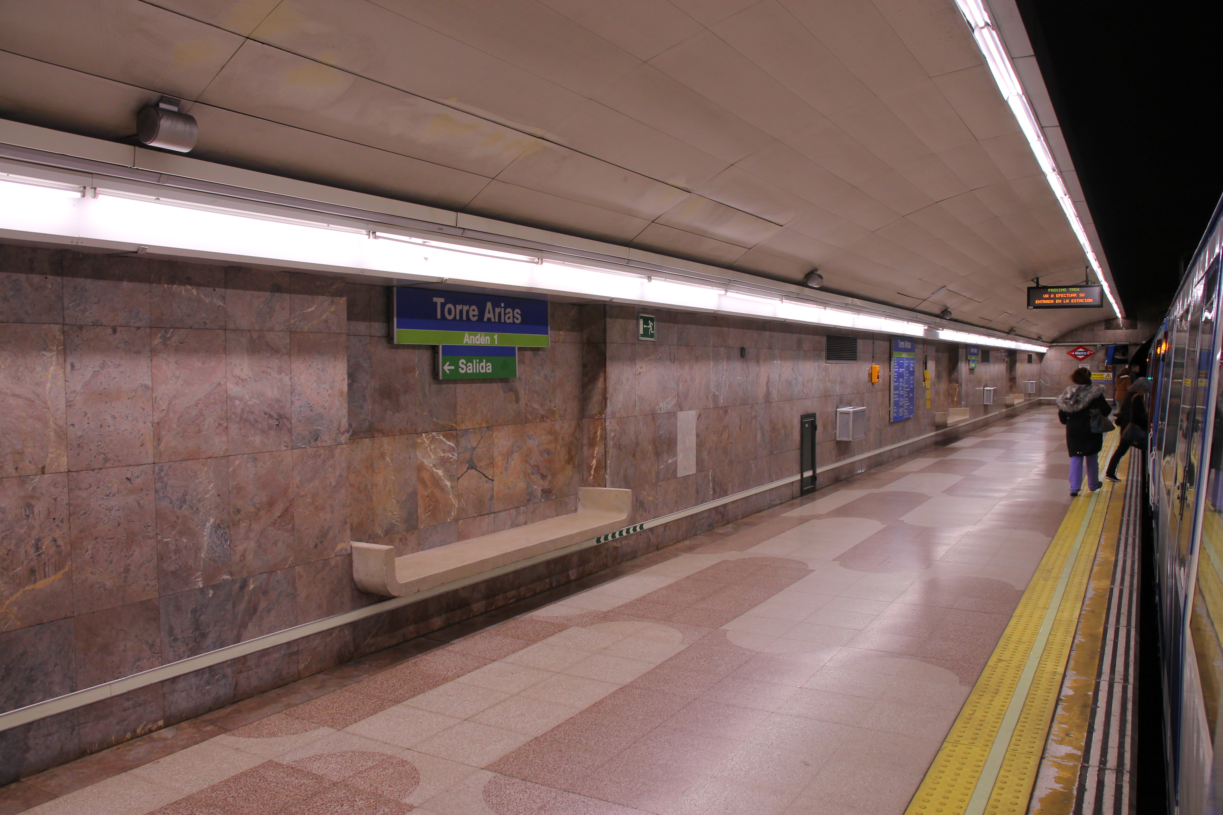 Estación de Torre Arias